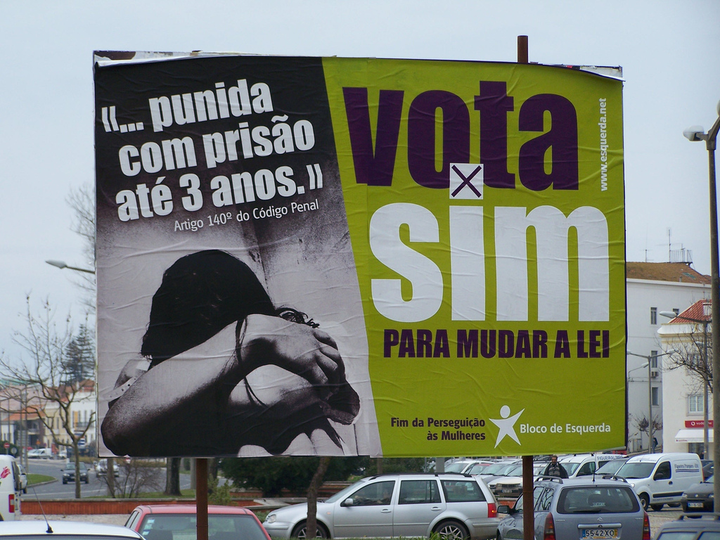 ad of the portuguese party "Bloco de Esquerda" (left block) to the referendum about the legalisation of abort